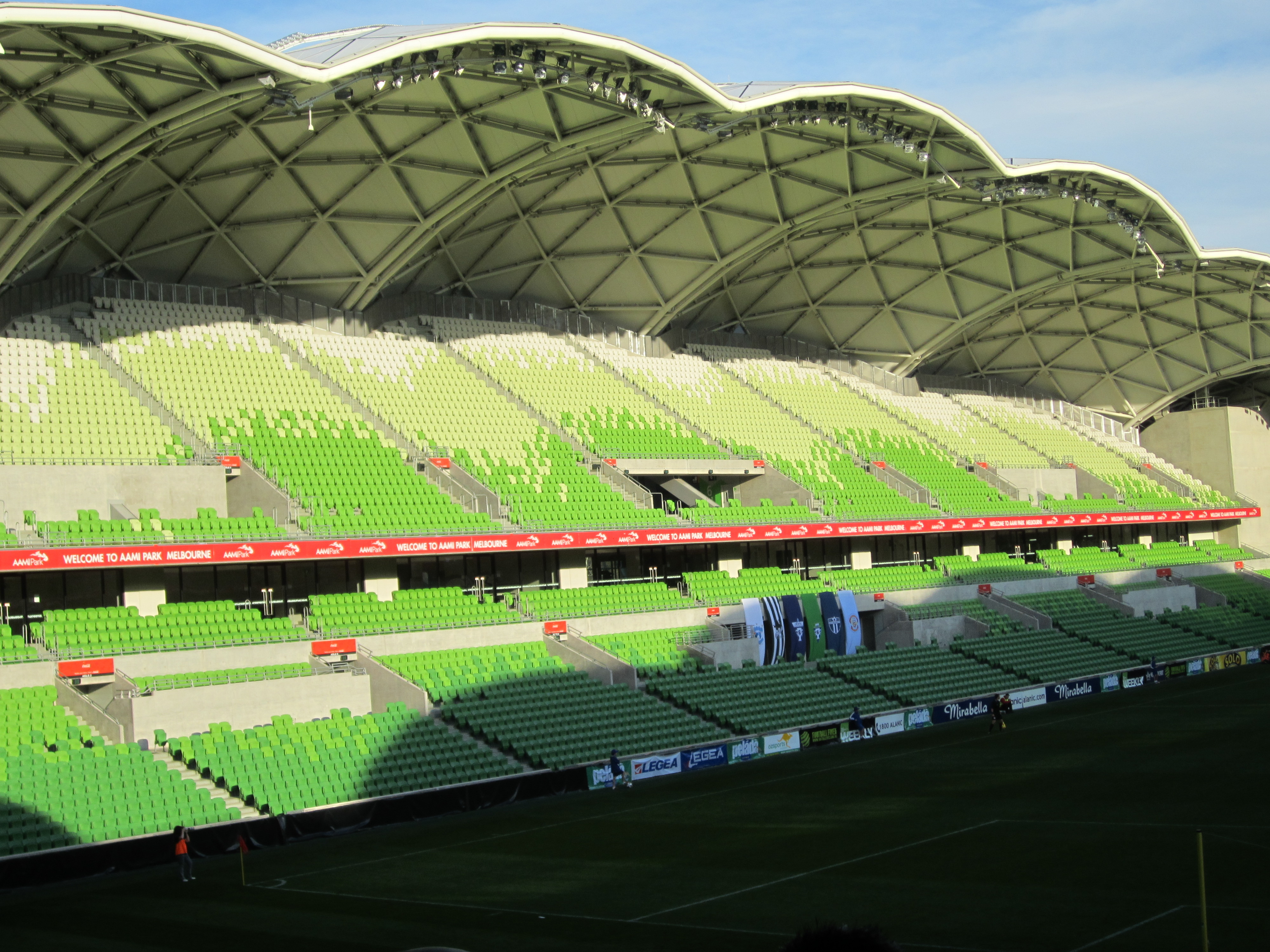 AAMI Park western stand during the VPL Grand Final 2011.